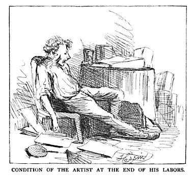 Jubilee Days, Boston, June 1872